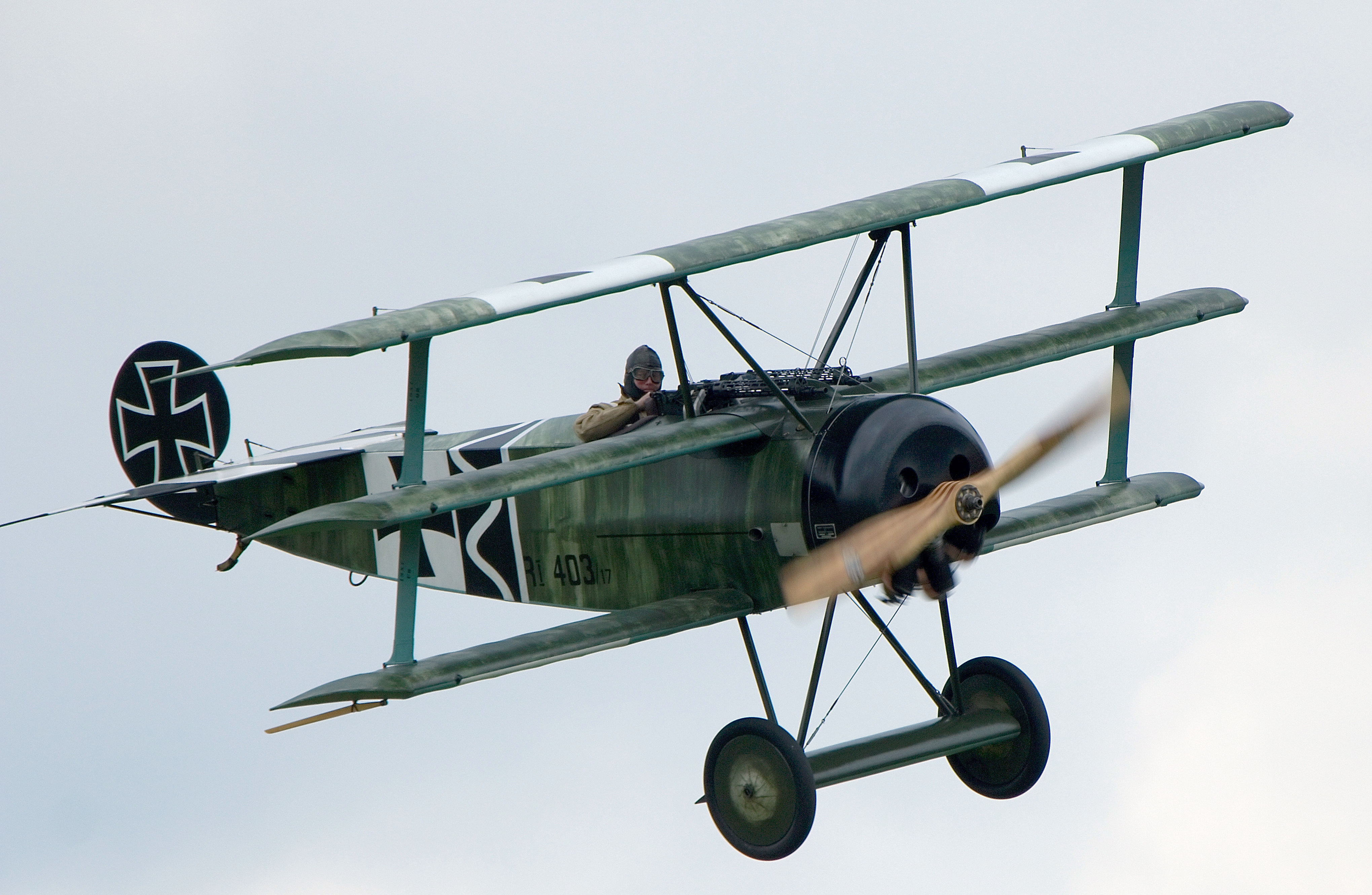 Fokker Dr.I at Airpower11 Replica 2008, Mikael Carlson